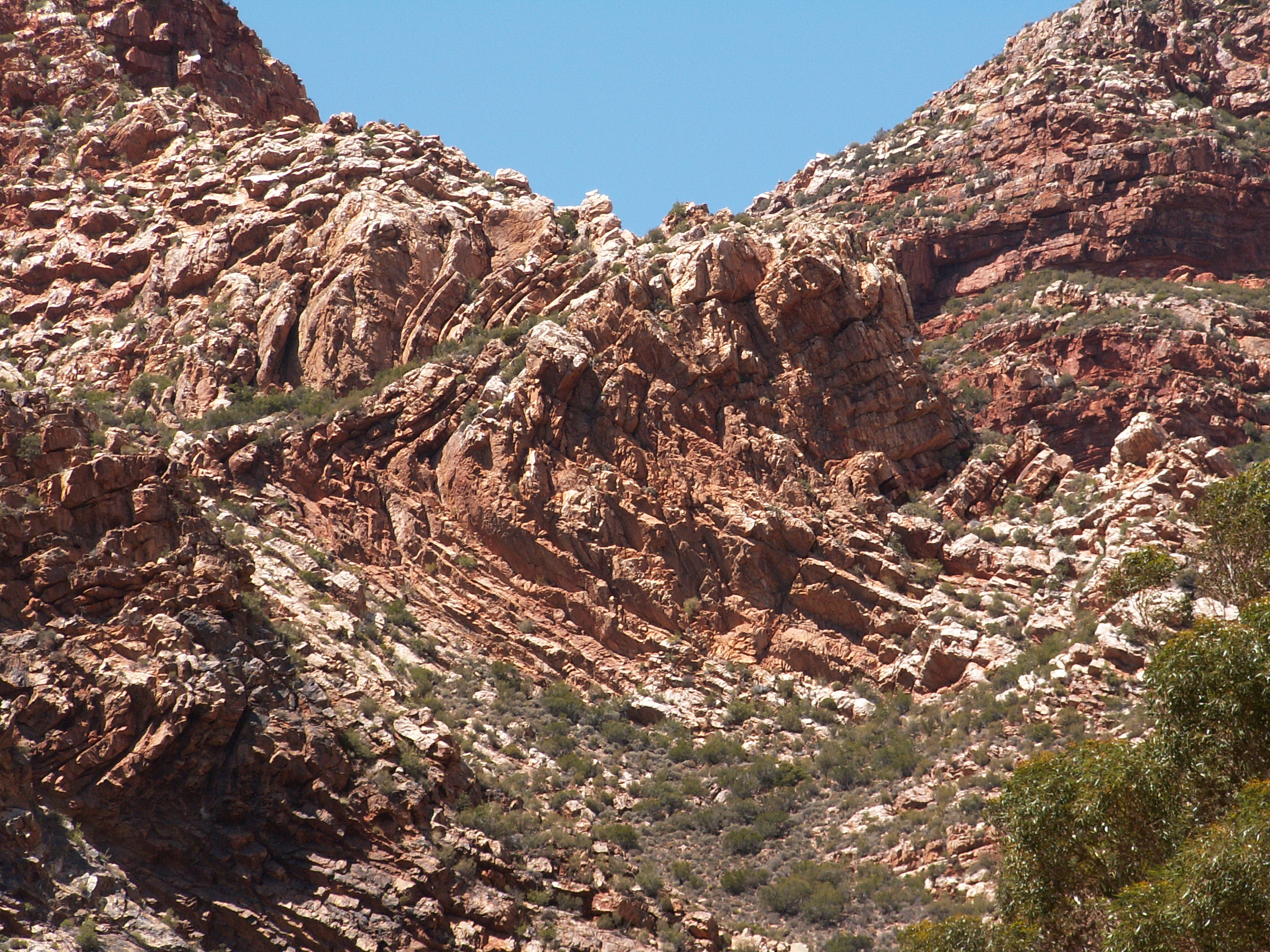 Rock formations of the Cape Fold Belt, on Swartberg Pass, near Oudtshoorn, Western Cape, South Africa